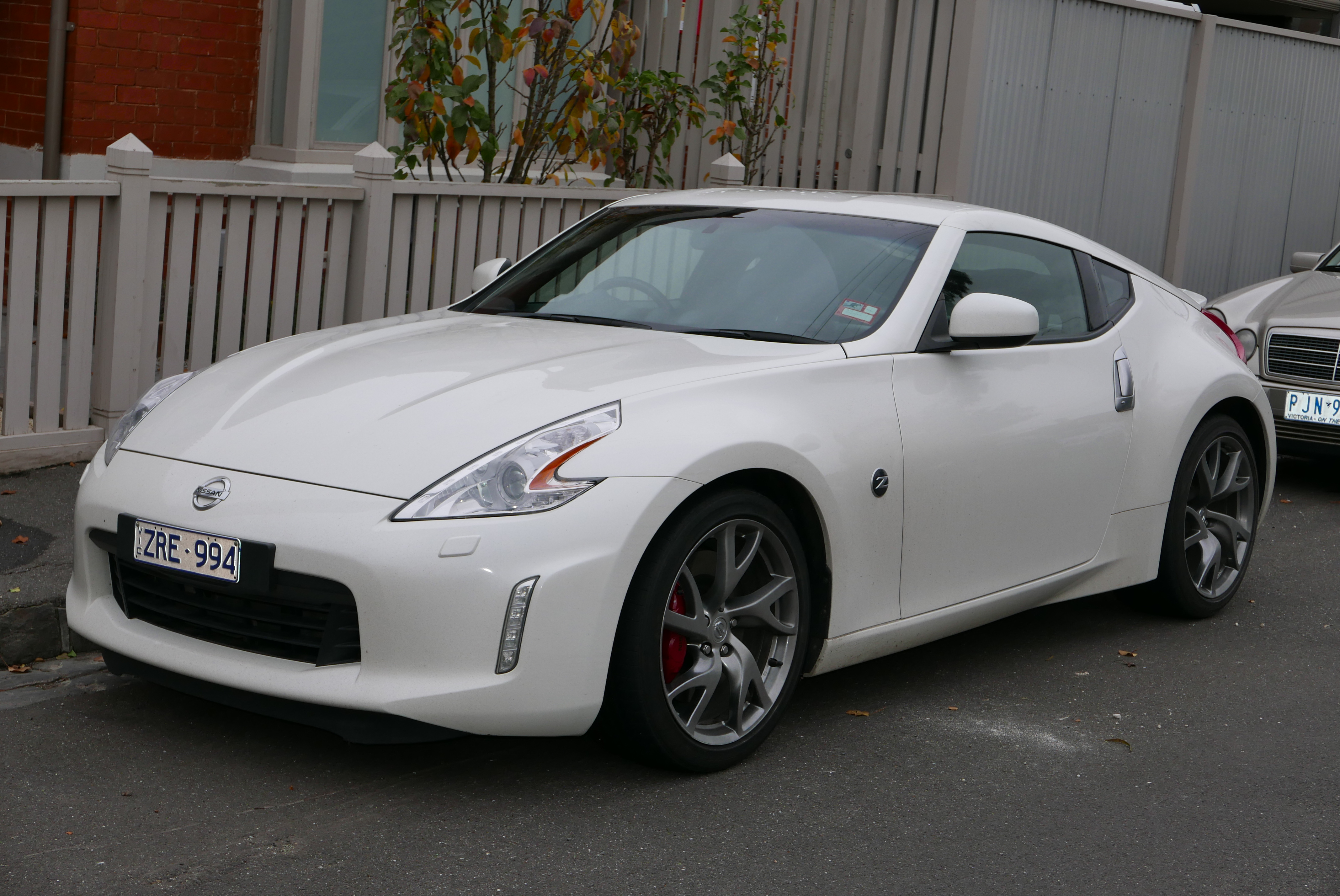 2013 Nissan 370Z (Z34 MY13.5) coupe. Photographed in Fitzroy North, Victoria, Australia. Vehicle registration enquiry results Jurisdiction Victoria Registration ZRE994 Chassis code JN1GAAZ34A0340120 Engine code VQ37455856A Compliance date 2013-06 Year of manufacture 2013